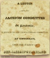 The 1828 campaign pamphlet written to defend Rachel Jackson against charges of bigamy